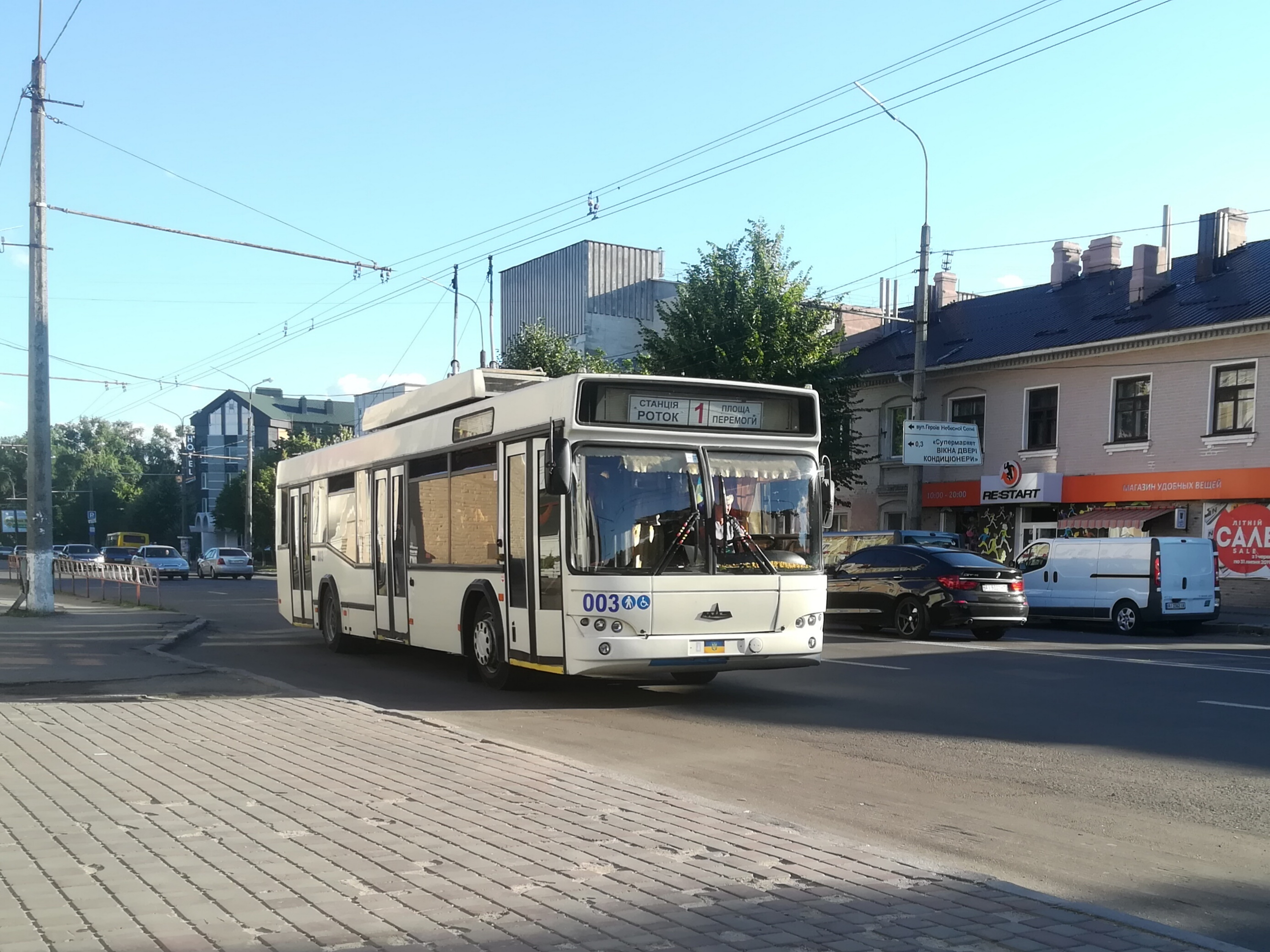 Trolleybus MAZ-ETON-103T No. 003 on Oleksandriiskyi boulevard in Bila Tserkva (route 1)